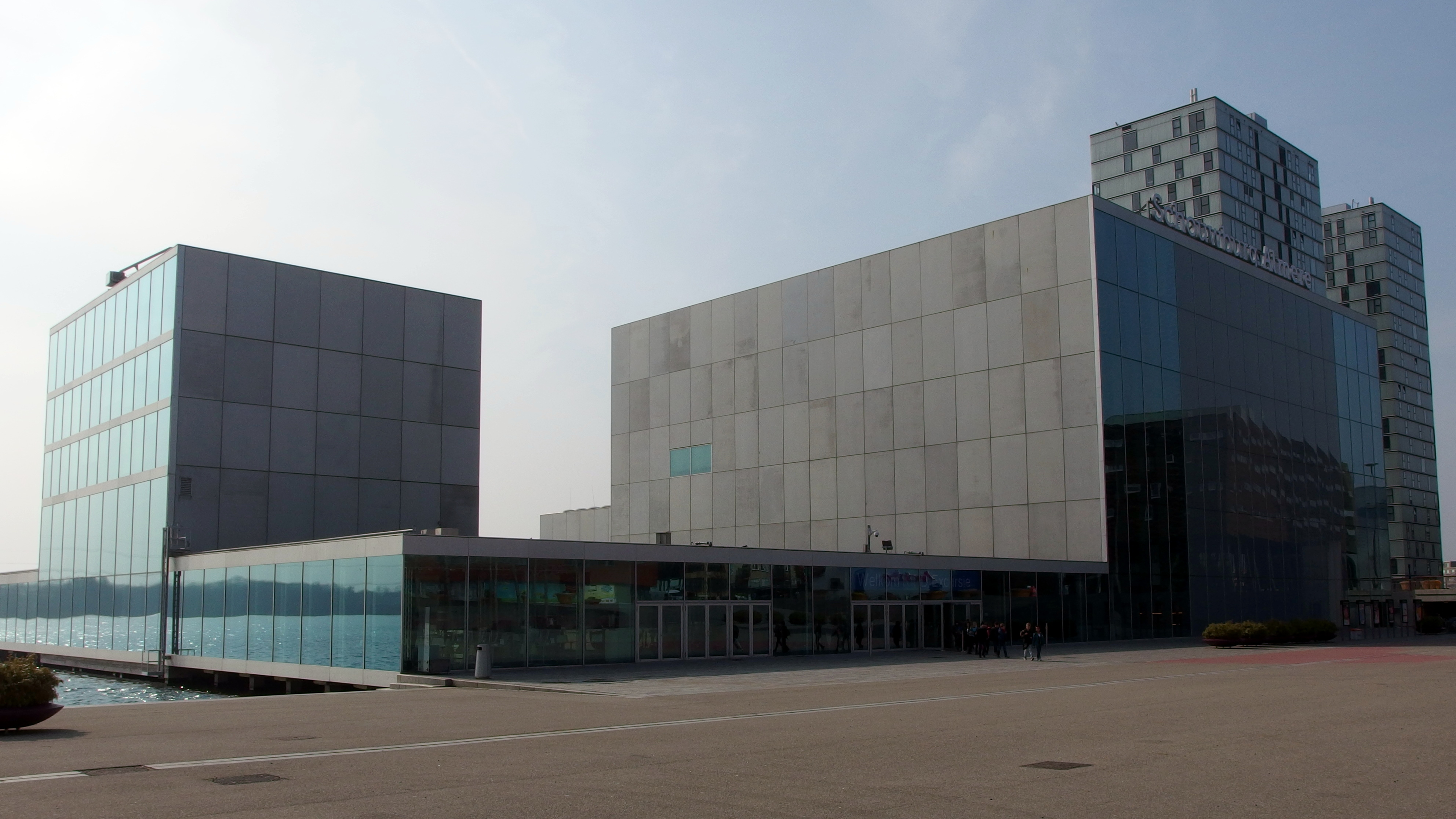 2015-03-16 in Almere. De Kunstlinie